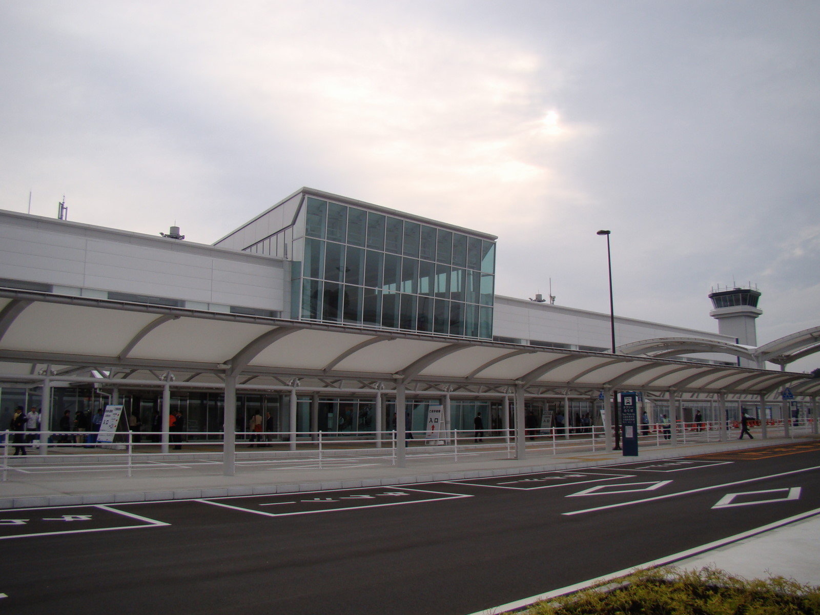 Terminal building of Shizuoka airport